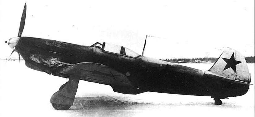 Yakovlev Yak-1B